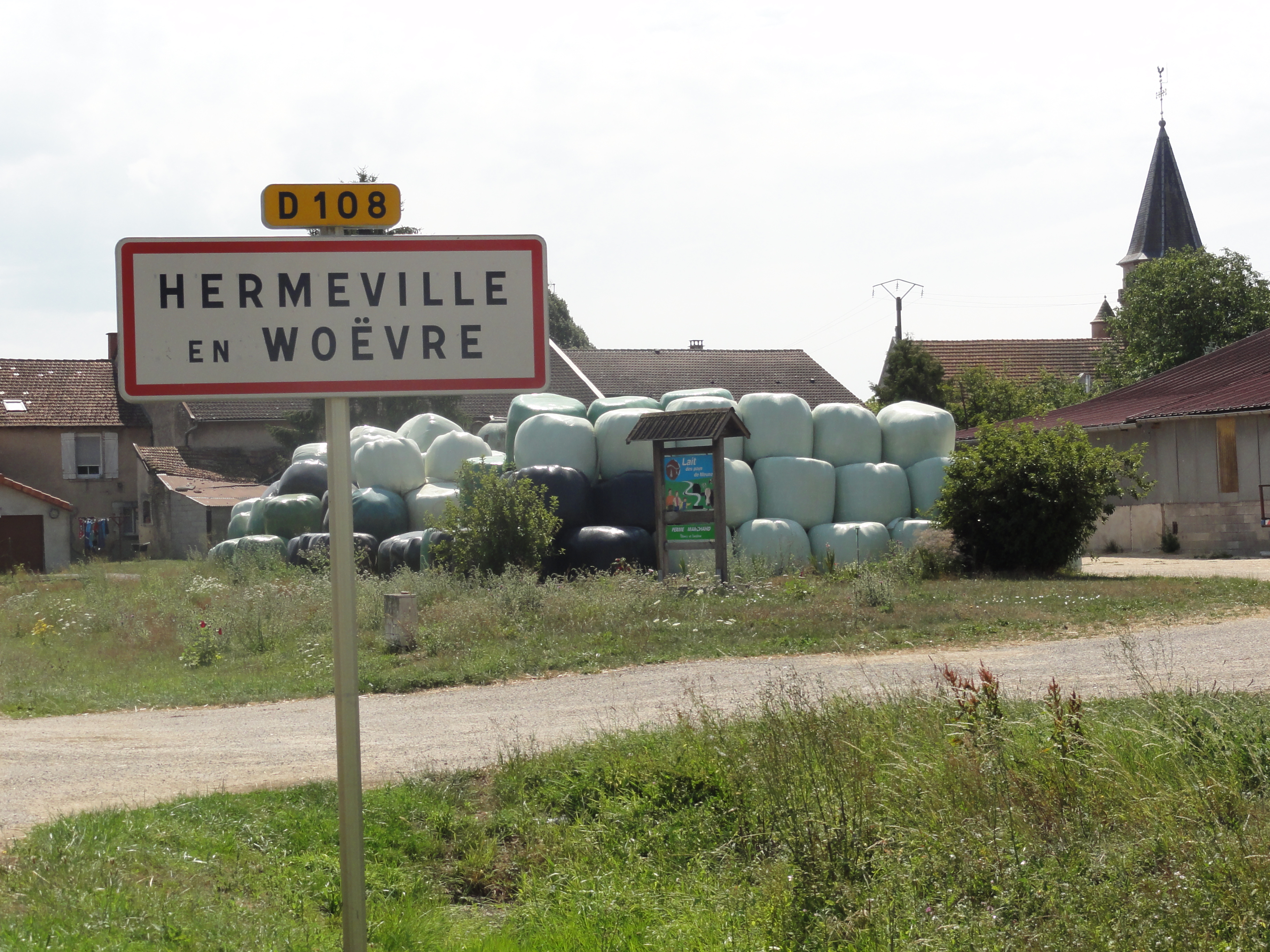 Hermeville-en-Woëvre (Meuse) city limit sign